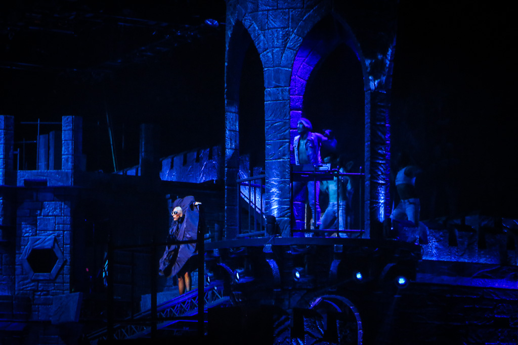 Gaga performing at the Born This Way Ball